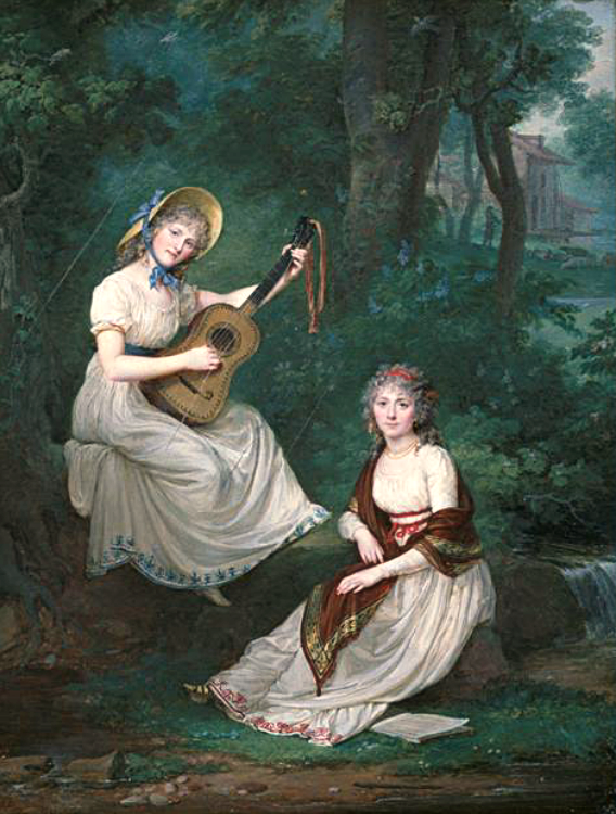 Les Demoiselles de Tourzel, assises près d'un ruisseau. By Jean-Antoine Laurent.